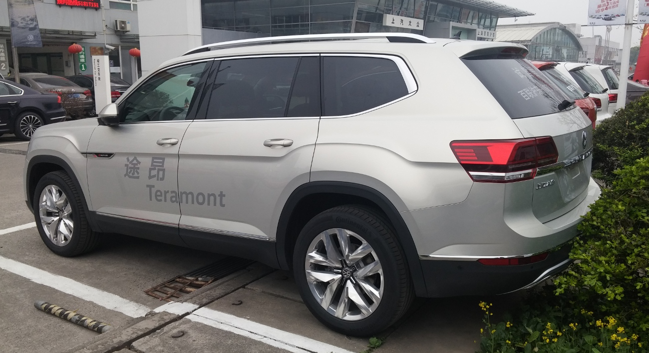 Volkswagen Teramont photographed in Shanghai, China.